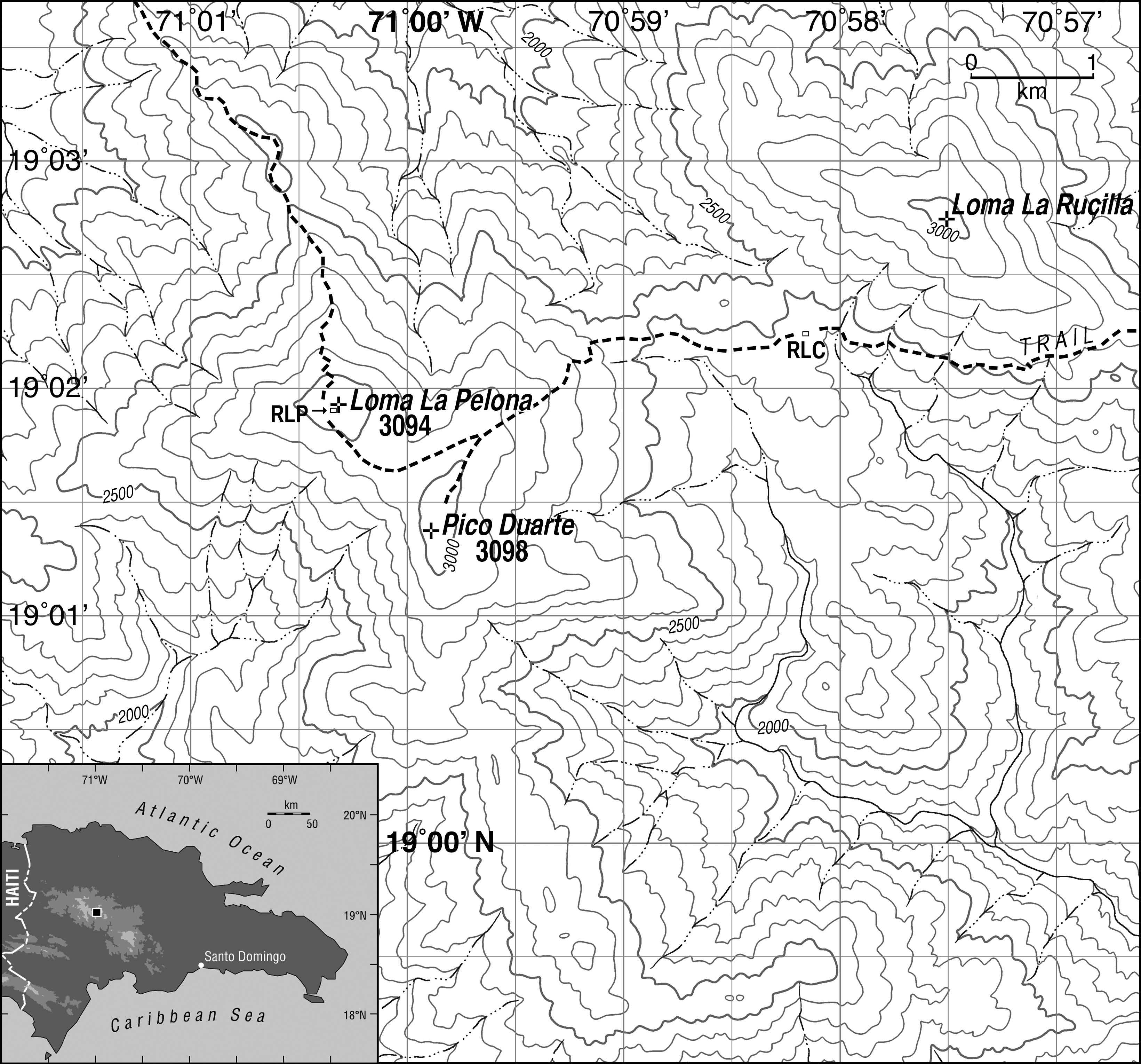 Map general area surrounding Pico Duarte. Contour interval is 100 m. RLP: Refugio La Pelona. RLC: Refugio La Compartición. Inset shows Dominican Republic with location of main map highlighted. Datum is WGS 84; projection is Universal Transverse Mercator (19N). Trails and shelters were mapped using GPS and aerial photography; topography and streams were adjusted from the Lamedero (NW, 1969), Manabao (NE, 1969), Juan de Herrera (SW, 1969) and Gajo de Monte (SE, 1962) 1:50000 scale topographic quadrangles published by the U.S. Army Map Service and compiled by that group in collaboration with the Instituto Cartográfico Militar, the Instituto Cartográfico Universitario and the Inter-American Geodetic Survey.